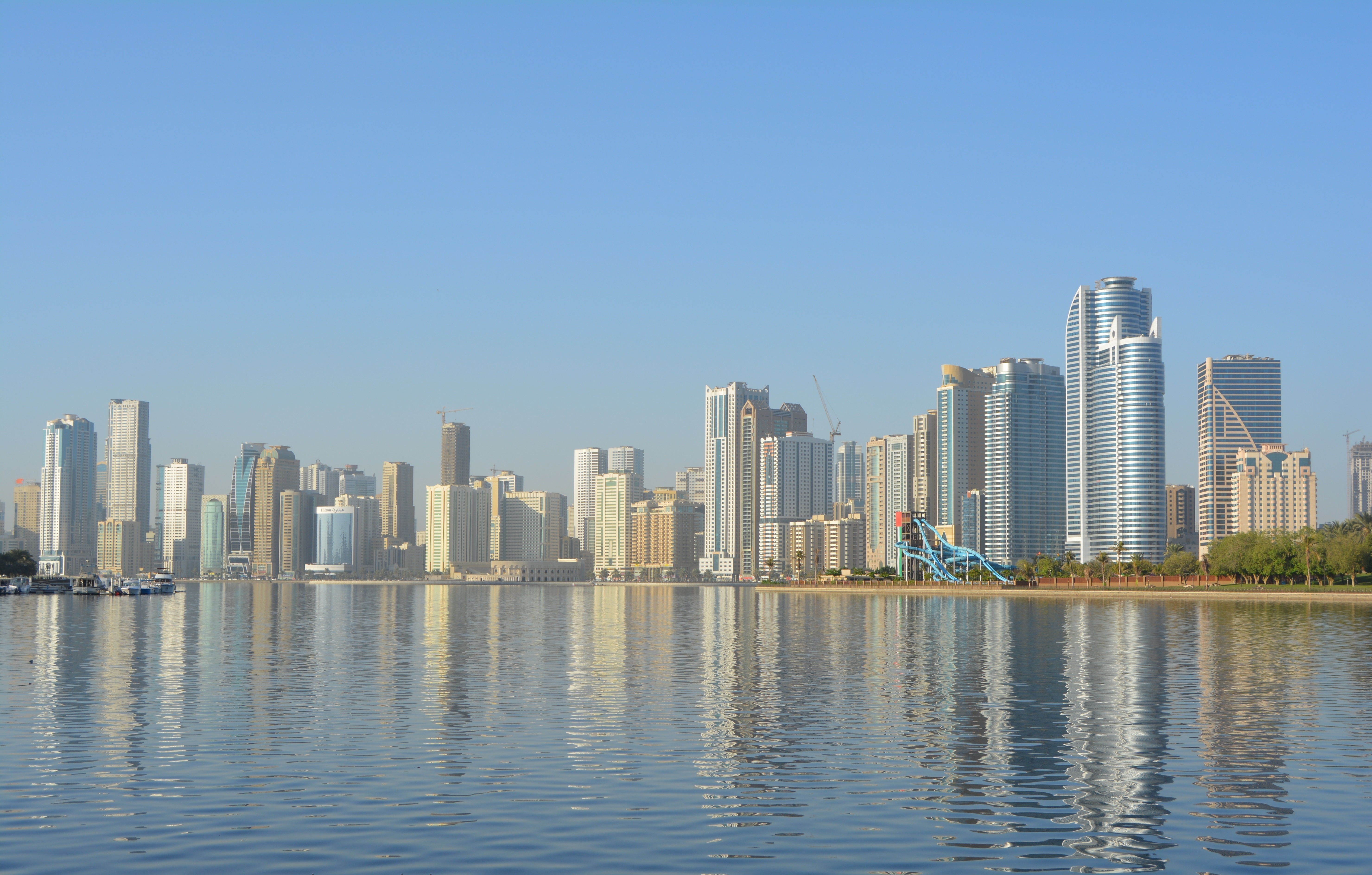 Sharjah city skyline